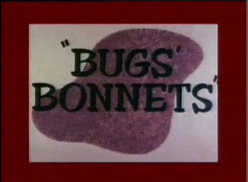 Title card for the Bugs Bunny short film "Bugs' Bonnets" without watermark.